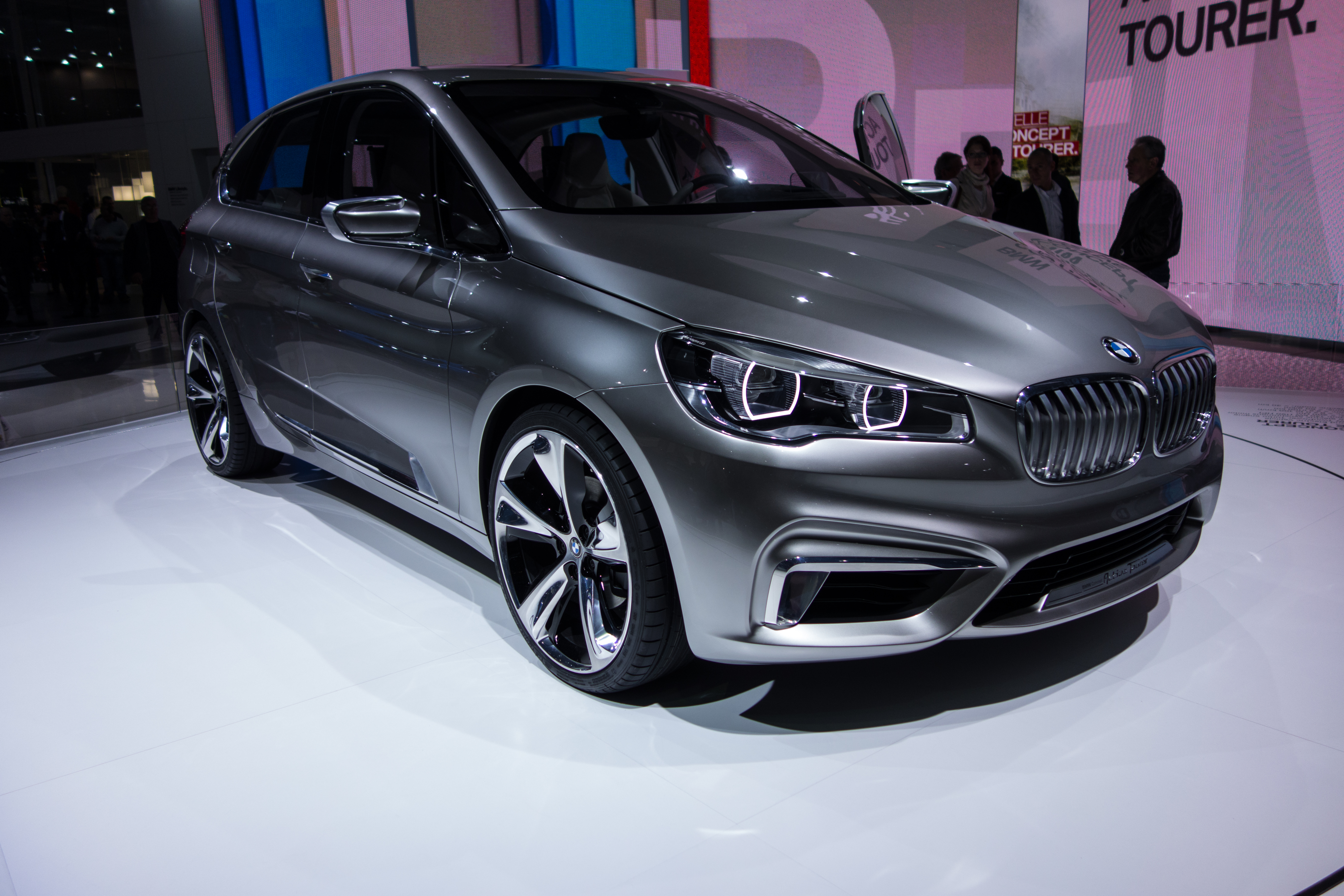 Mondial De L'automobile Paris 2012 | Paris Motor Show 2012